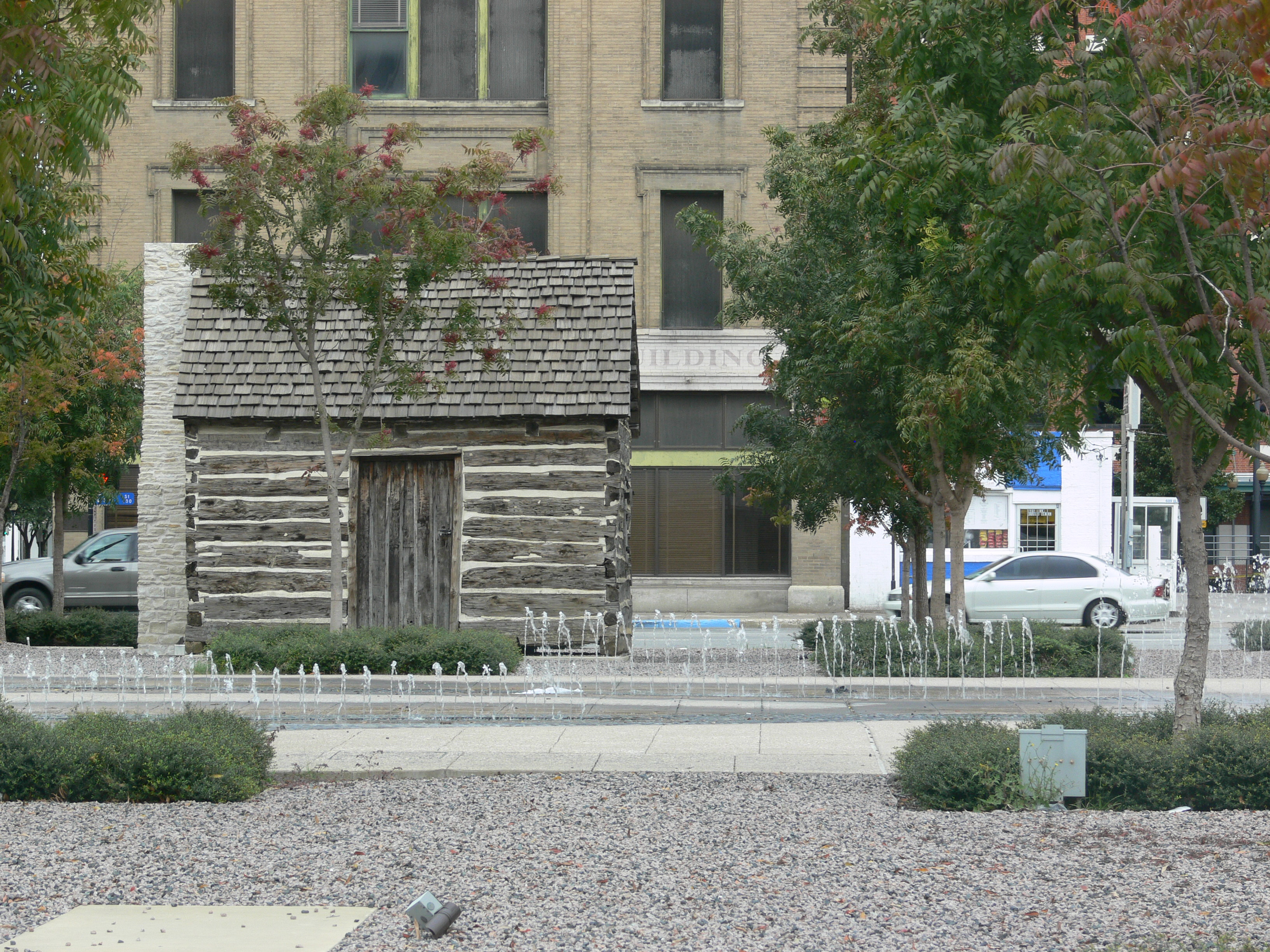 John Neely Bryan Cabin (modern copy), Dallas